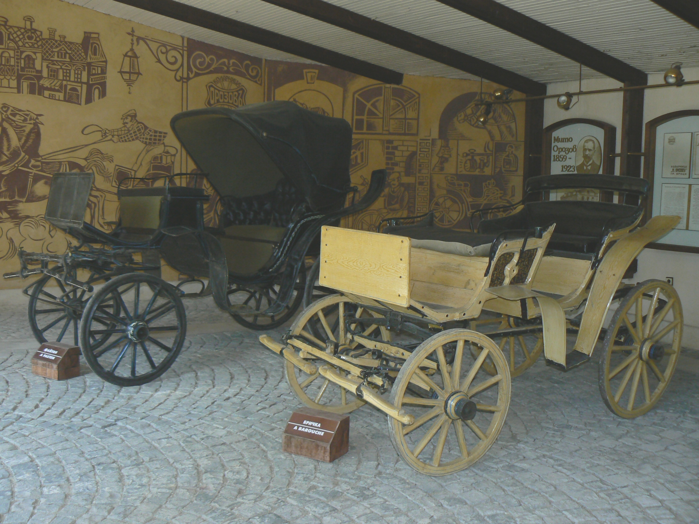 A phaeton and a barouche from the beginning of 20 century, produced in the factories of Mito Orozov from Vratsa. Exhibited in the Ethnographic complex "Saint Sophronius of Vratsa". Vratsa, Bulgaria